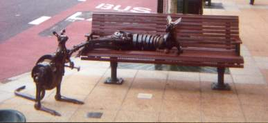 City Roo Sculptures and bench in George Street, Brisbane, Queensland, Australia ( this photograph was taken by Figaro )